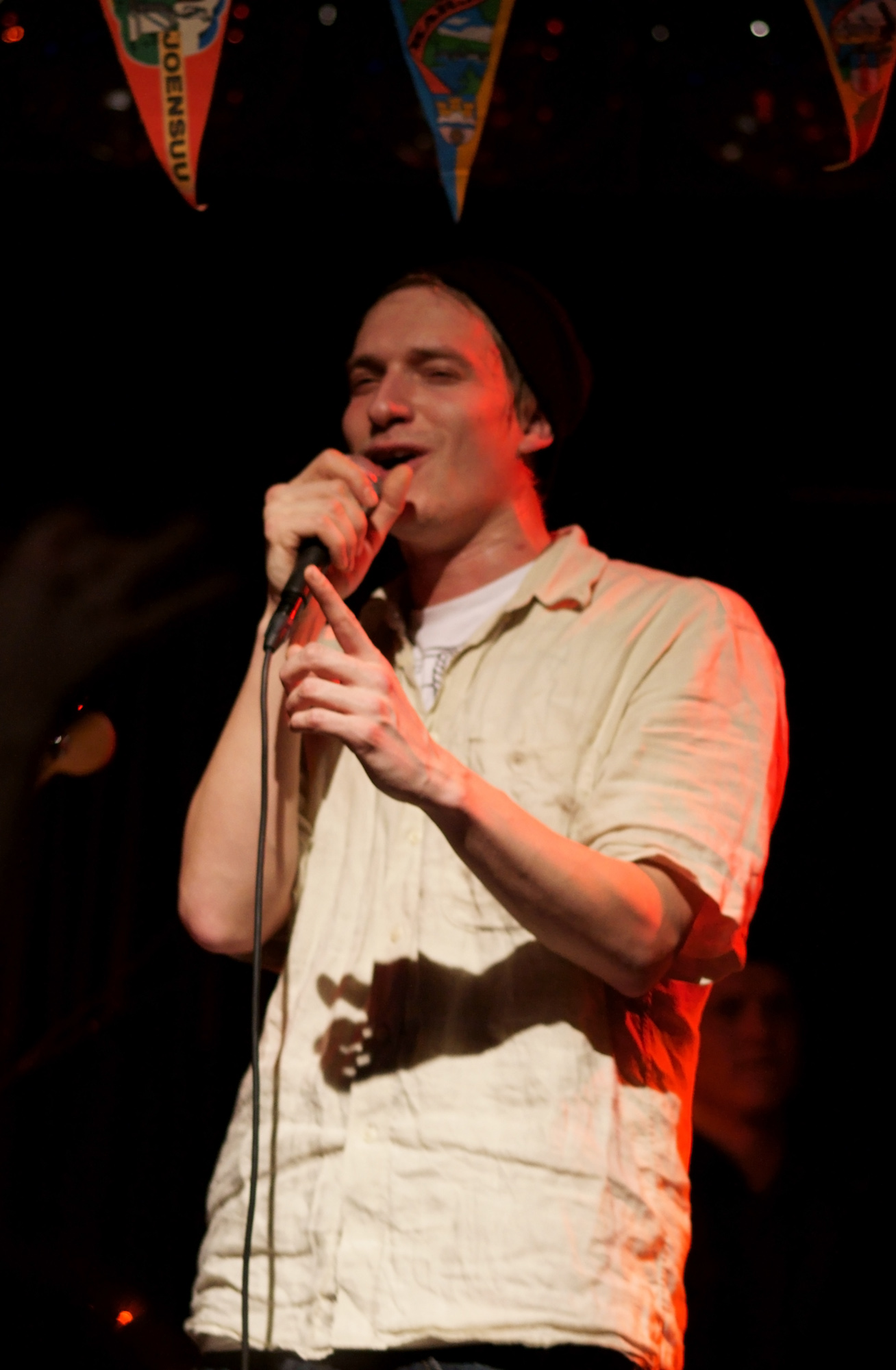 Asa from Asa & Jätkäjätkät performing at Bar Kino, Pori, Finland.